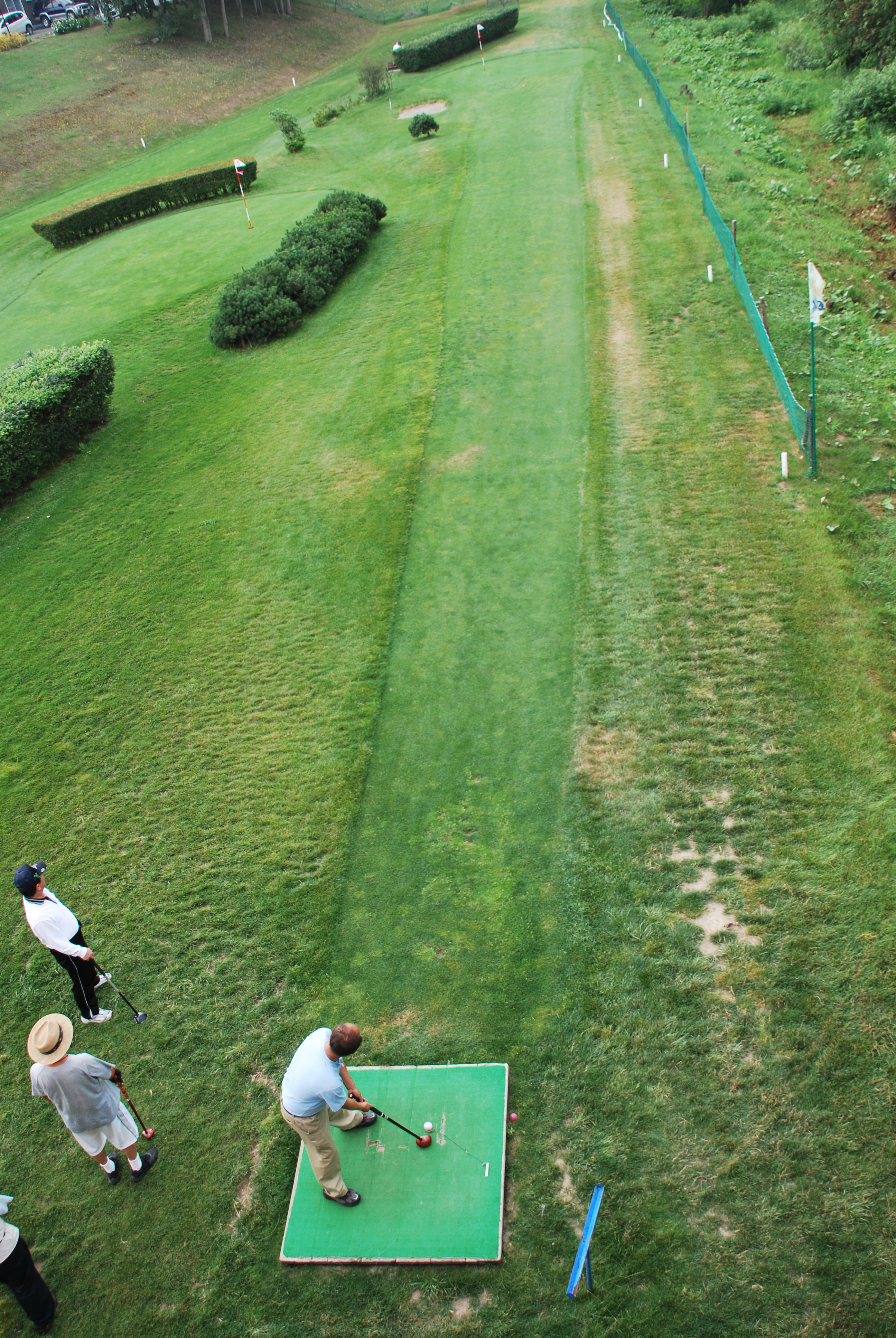 A man about to putt in a game of park golf on the Izarigawa Park Golf Range's Kawasemi Course in Kogane Kita, Eniwa, Hokkaido.